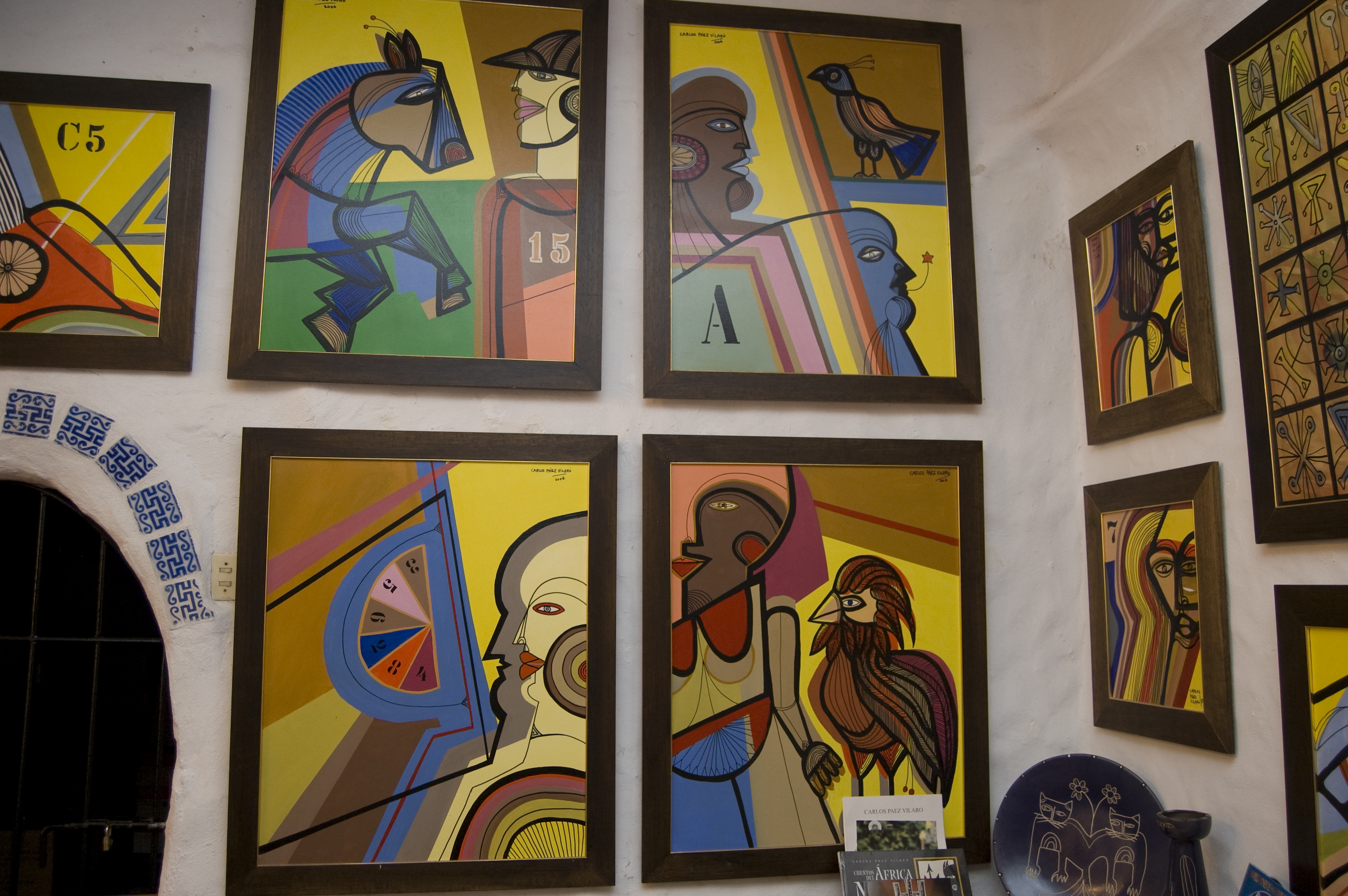 Works by Uruguayan artist Carlos Páez Vilaró.